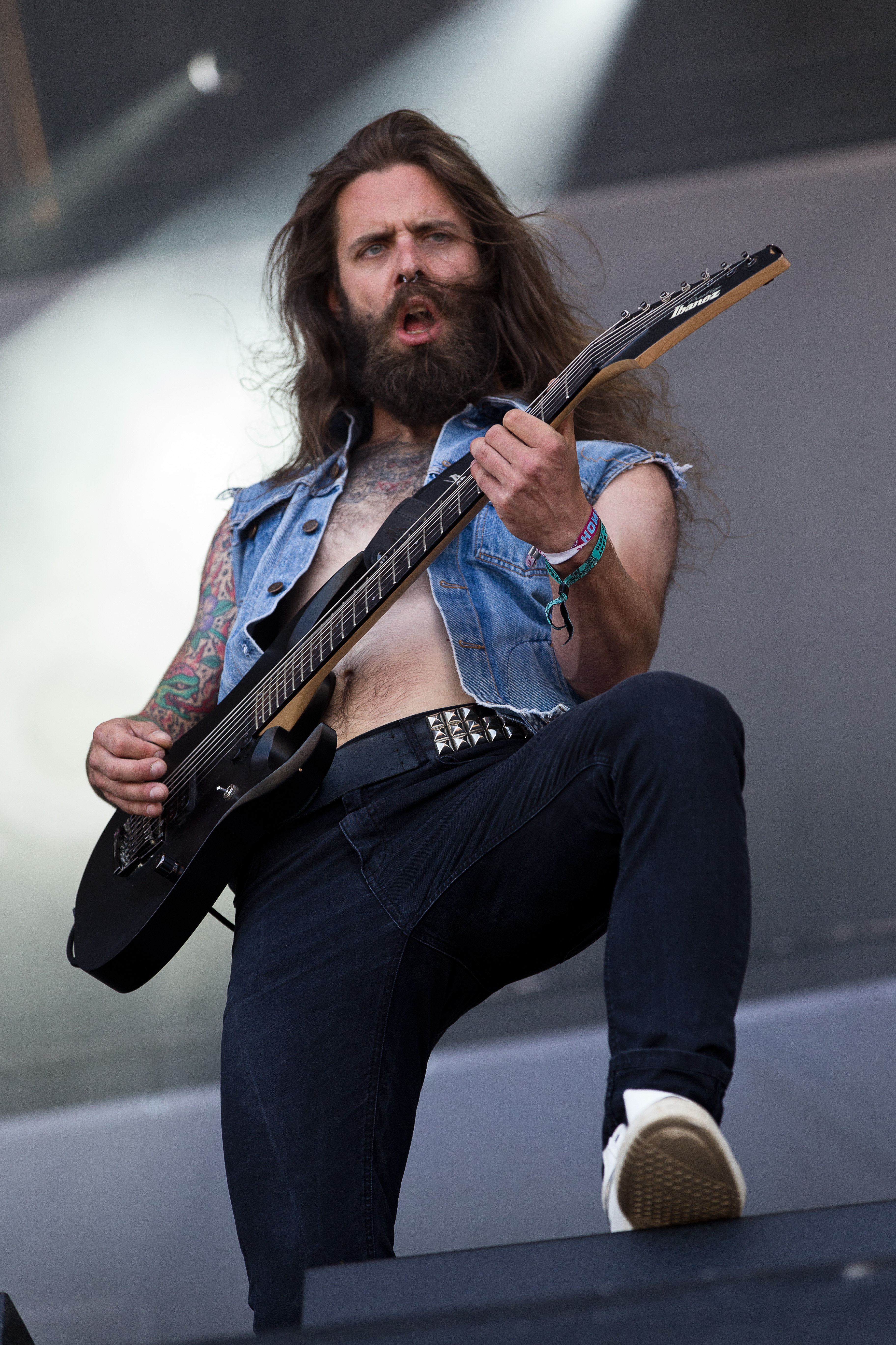 The German melodic death metal band Deadlock at the Rockharz Open Air 2016 in Ballenstedt/Germany.